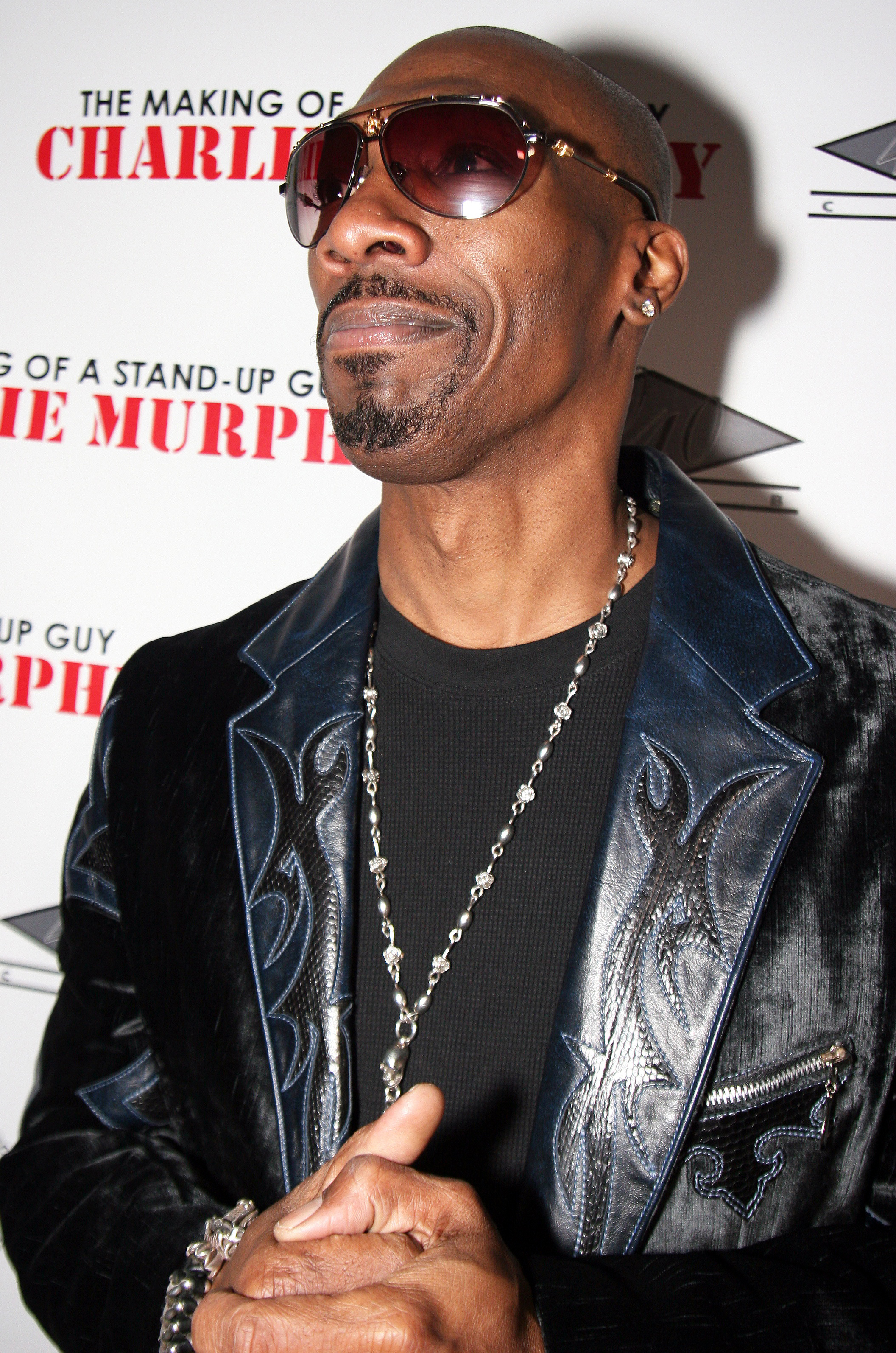 Charlie Murphy at an event to promote his book The Making of a Stand Up Guy in December 2009.